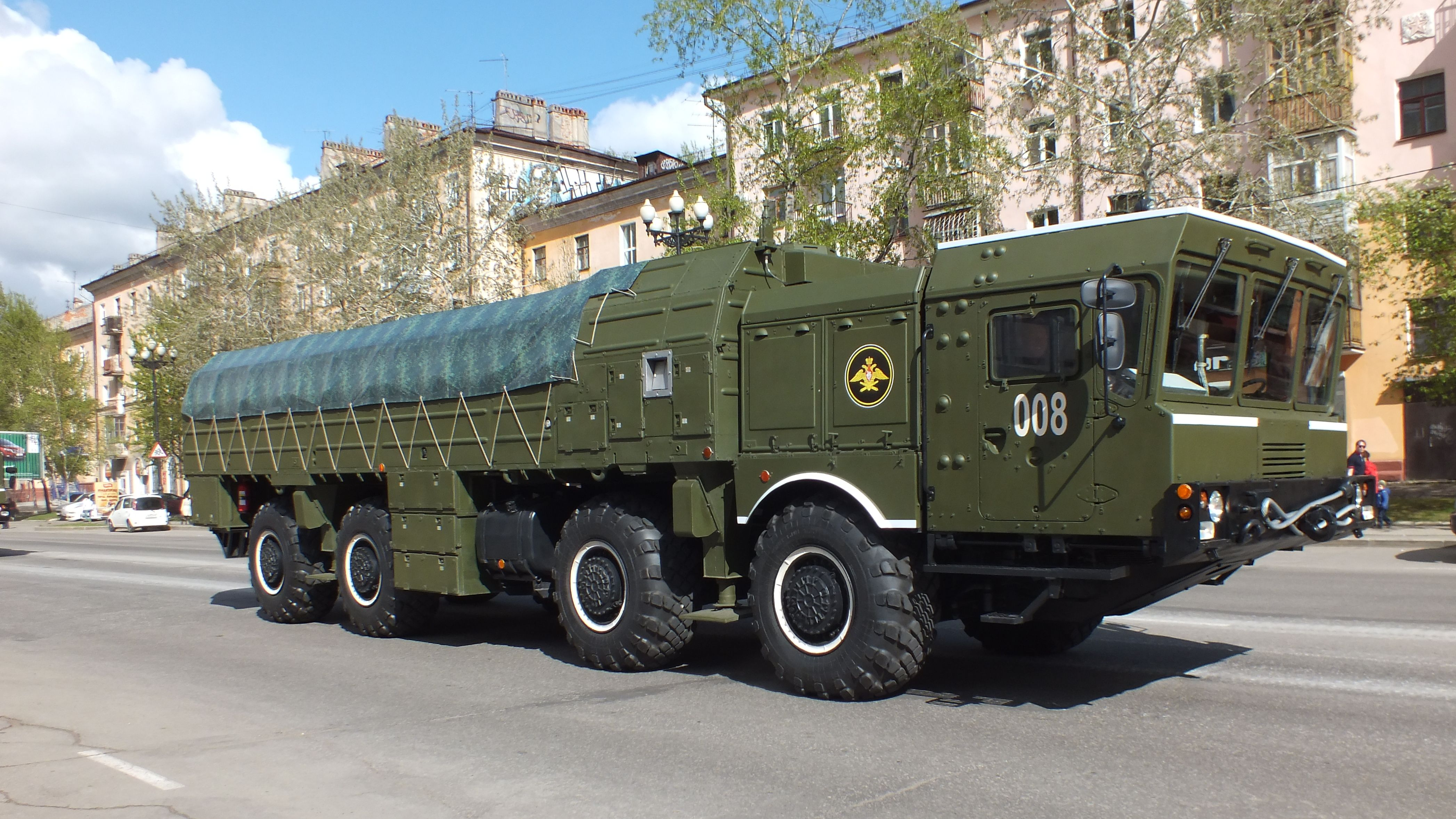 Far Eastern Military District